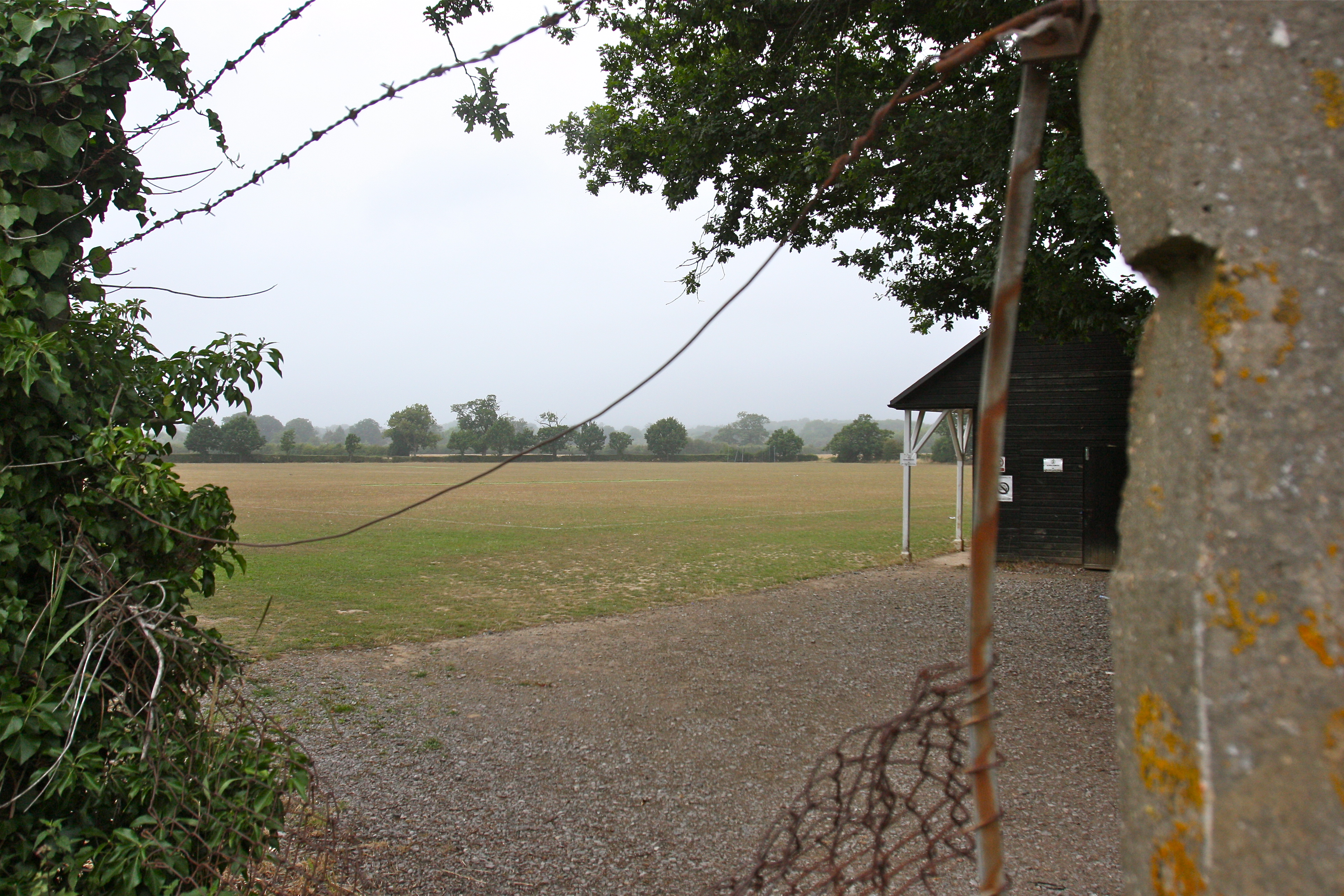 The Judd School's 'Yeoman's' playing fields, located approximately a ten minute walk from the school.